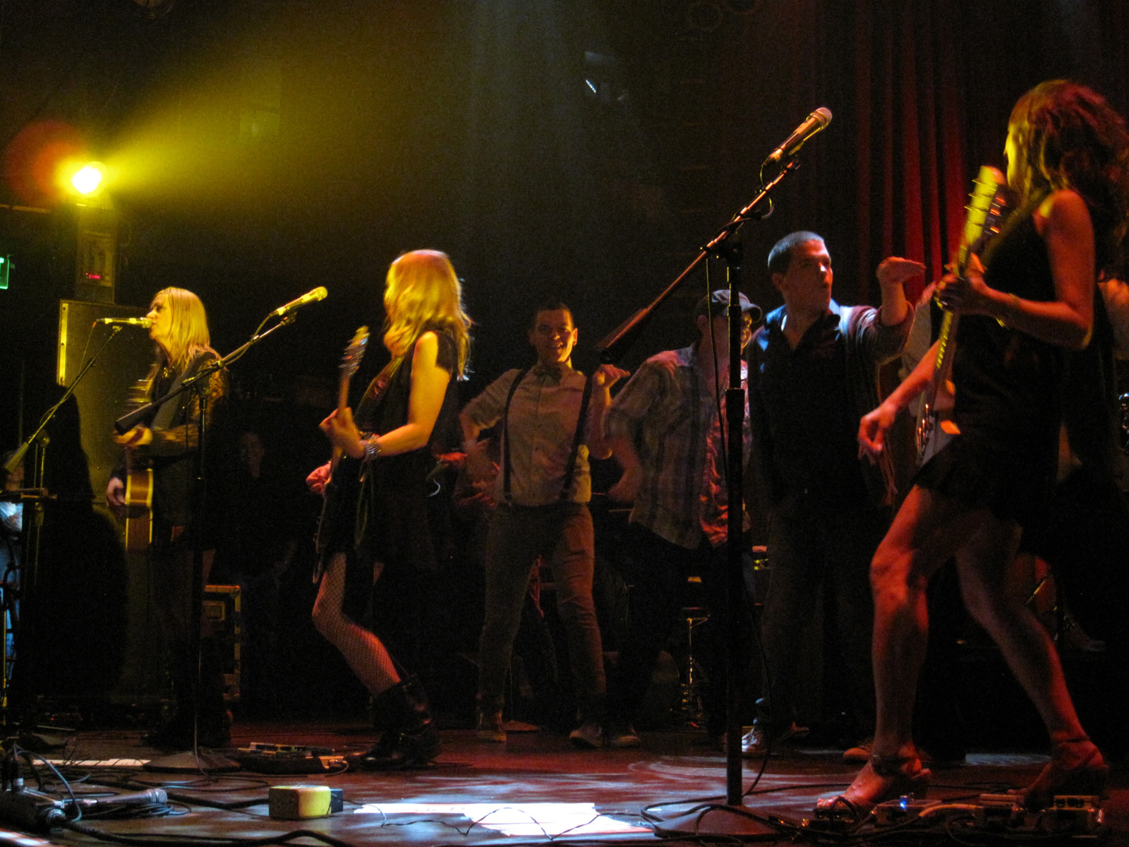 The final encore number for the performance was the 1986 hit, "Walk Like an Egyptian." For this number, Egyptian dances are being performed by members of A Fragile Tomorrow, the Charleston, South Carolina-based band that had opened for the Bangles for this show, and for all the West Coast shows of this tour. The Bangles, known for such hits in the 1980s as "Walk Like an Egyptian" and "Eternal Flame," released a brand-new album in 2011, entitled Sweetheart of the Sun, and toured the US in support of it. The 12 November show in Anaheim is the final one of the tour. The Bangles are made up of the following members: - Susanna Hoffs, vocals/guitar - Debbi Peterson, vocals/percussion/guitar - Vicki Peterson, vocals/guitar - Bassist Michael Steele left the band in 2005. This was my second Bangles concert; the first had been on 17 September 2000 in San Francisco.